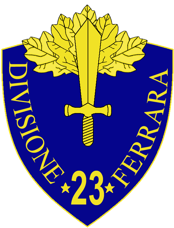 23a Divisione Fanteria Ferrara insignia, Regio Esercito, Italy, WWII